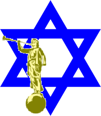 I am the creator of this image of the angel moroni on top of the star of david. I give a free license for this image to be used.